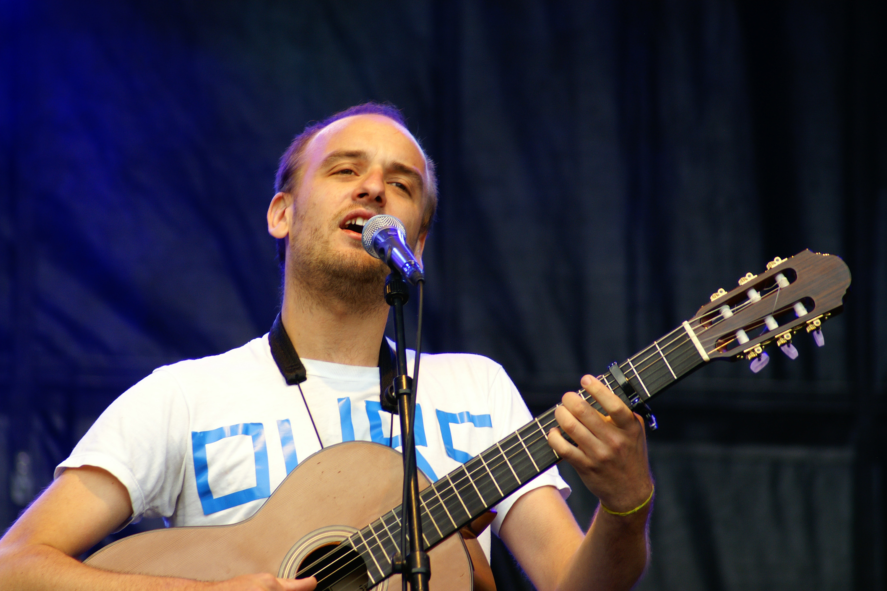 Ours live at Aux Zarbs festival (Auxerre, France).Ours @ Aux Zarbs (Auxerre) 2007